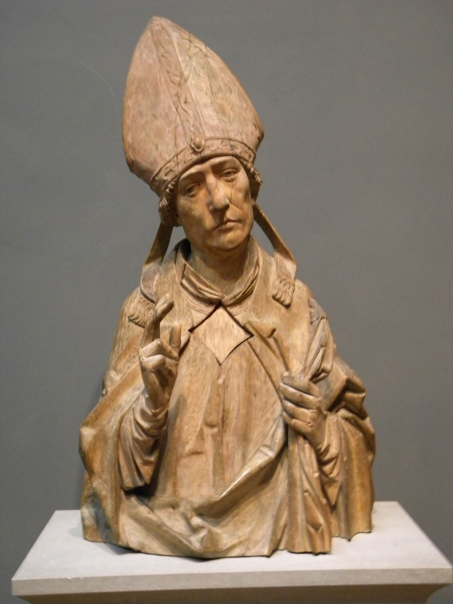 National Gallery of Art Washington DC Tilman Riemenschneider (artist) German, c. 1460 - 1531 A Bishop Saint (Burchard of Würzburg?), c. 1515/1520 linden wood with traces of polychromy overall: 82.3 x 47.2 x 30.2 cm (32 3/8 x 18 9/16 x 11 7/8 in.) Samuel H. Kress Collection 1961.1.1